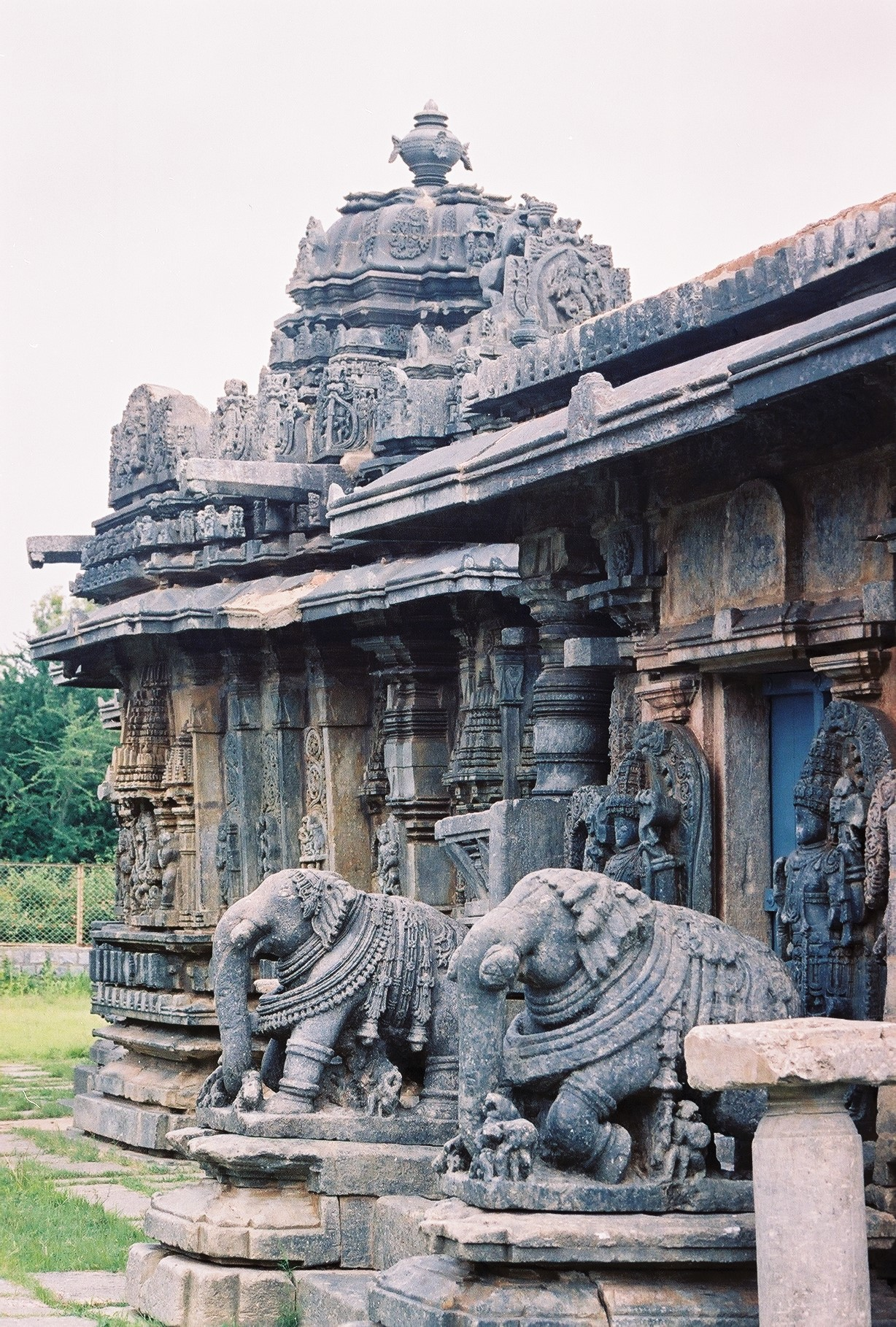 The Bucesvara temple (also spelt Bucheshwara or Bucheshvara) in Hassan district or Karnataka state, India was build in 1173 A.D. during the rule of Hoysala Empire King Veera Ballala II